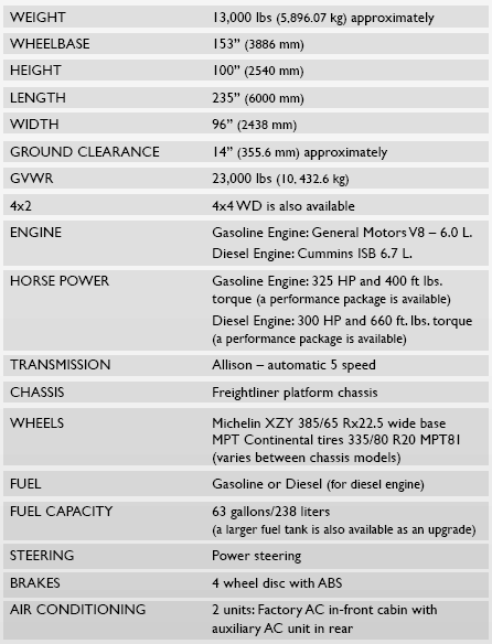 Design specifics on the Knight XV, a luxury armored SUV by Conquest Vehicles